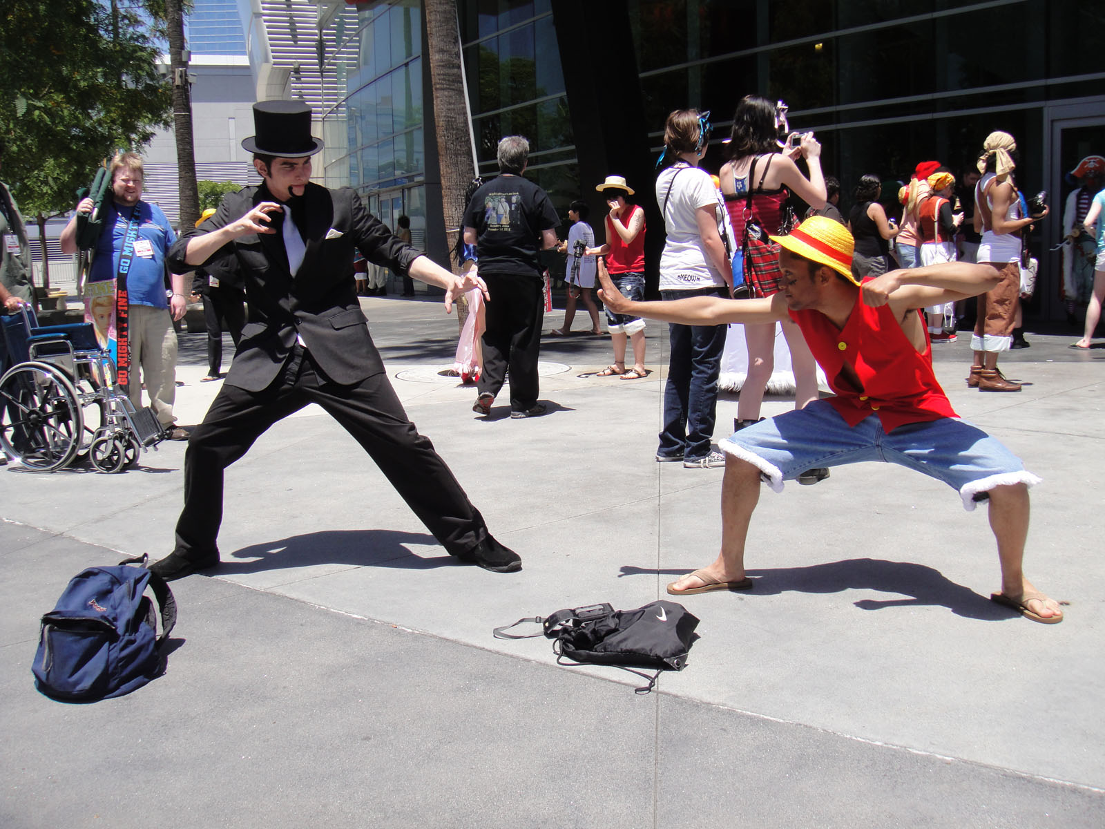 photo 2011 taken by Doug Kline If you're interested in higher resolution versions of my images, contact me via my profile page.